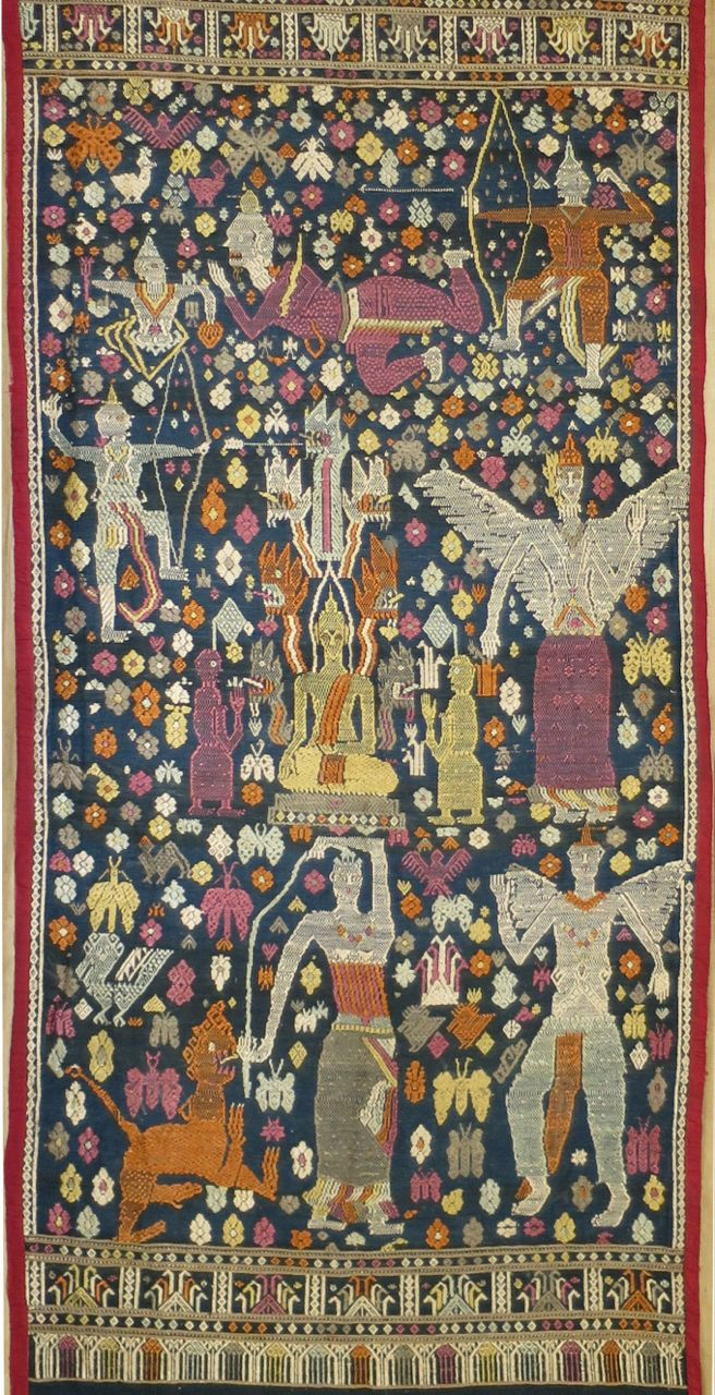 The placement of the motif of the Buddha in the middle of this textile clearly connects Sinxay with Buddhism. This textile was woven over fifty years ago and is the only known textile in Laos that is entirely about Sinxay. The woman who sold it said it was given to her by her mother-in-law, as part of her dowry when she married the woman's youngest son. Her mother-in-law told her it was prized because of the complexity of it’s weaving and creativity in showing images not normally seen as motifs in traditional Thai Daeng textiles. In this area of Laos a majority of the population are non-Buddhist, so the appearance of a textile with a distinct Buddhist emphasis is hard to understand. As far as we know this is the only textile that has been woven to honor the story of Sinxay in Laos and with its complex design motif and intricate supplementary weft technique, indeed this textile could only have been woven in Laos.